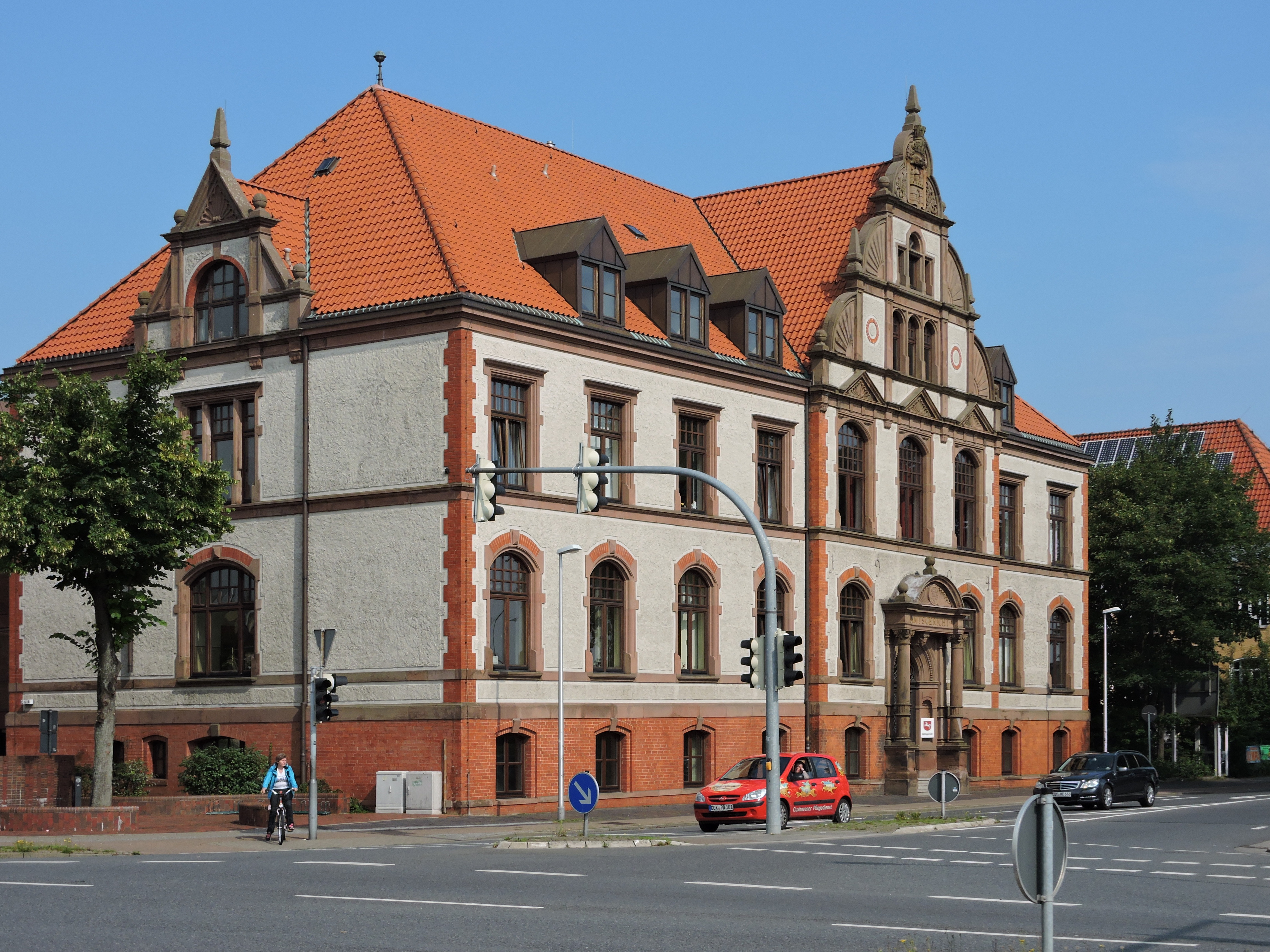 District court - old building